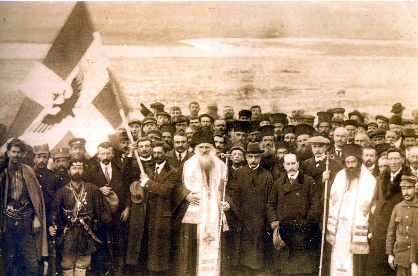 Picture of the official declaration of Independence Argyrokastro (now Gjirokastër) on 1 March 1914. President Georgios Christakis and members of the provisional Government of Northern Epirus, bishops Vasileios and Spyridon as well as local clergy, military personnel and civilians pose together with the automony flag. Drino/Drinos river in the backround.